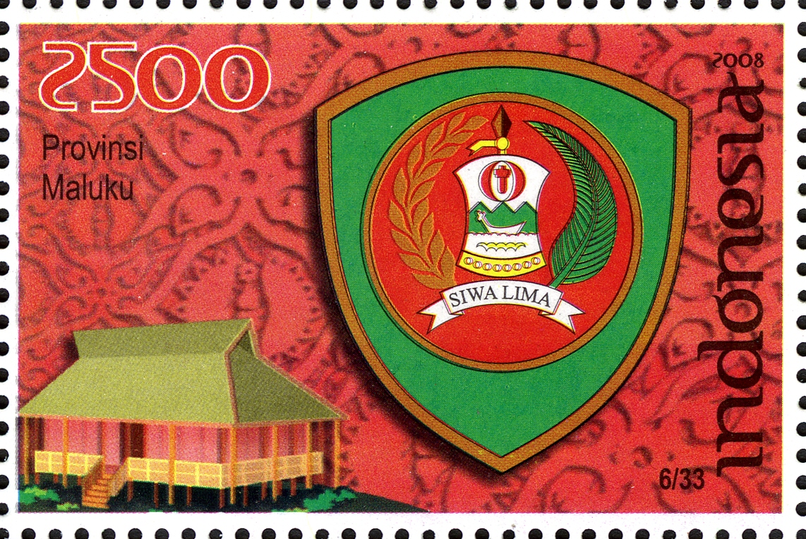 Stamps of Indonesia